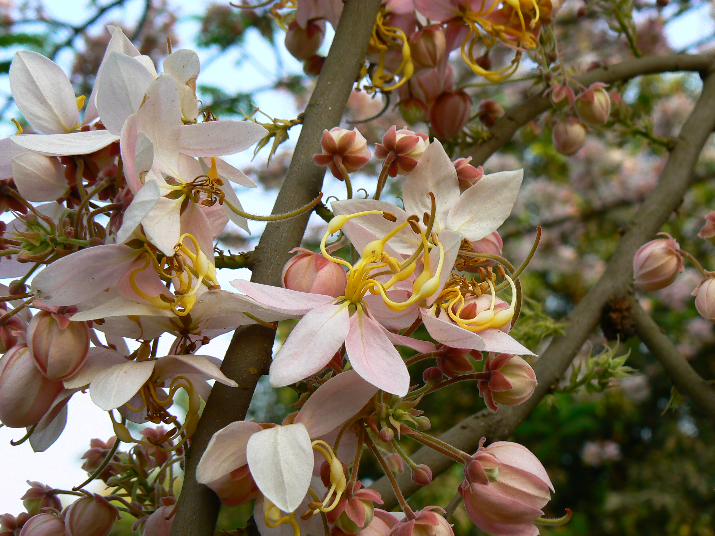 Fabaceae (pea, or legume family) » Cassia bakeriana KASS-ee-uh -- from an ancient Greek name kasia used by Dioscorides ¿ bay-KAIR-ee-ah-na ? -- commonly known as: dwarf apple blossom tree, peach blossom cassia, pink shower tree Native to: Thailand Reference: Flowers of India • TopTropicals • Zipcode Zoo Blogged at: Slice of the Day by Vasant M. Salian